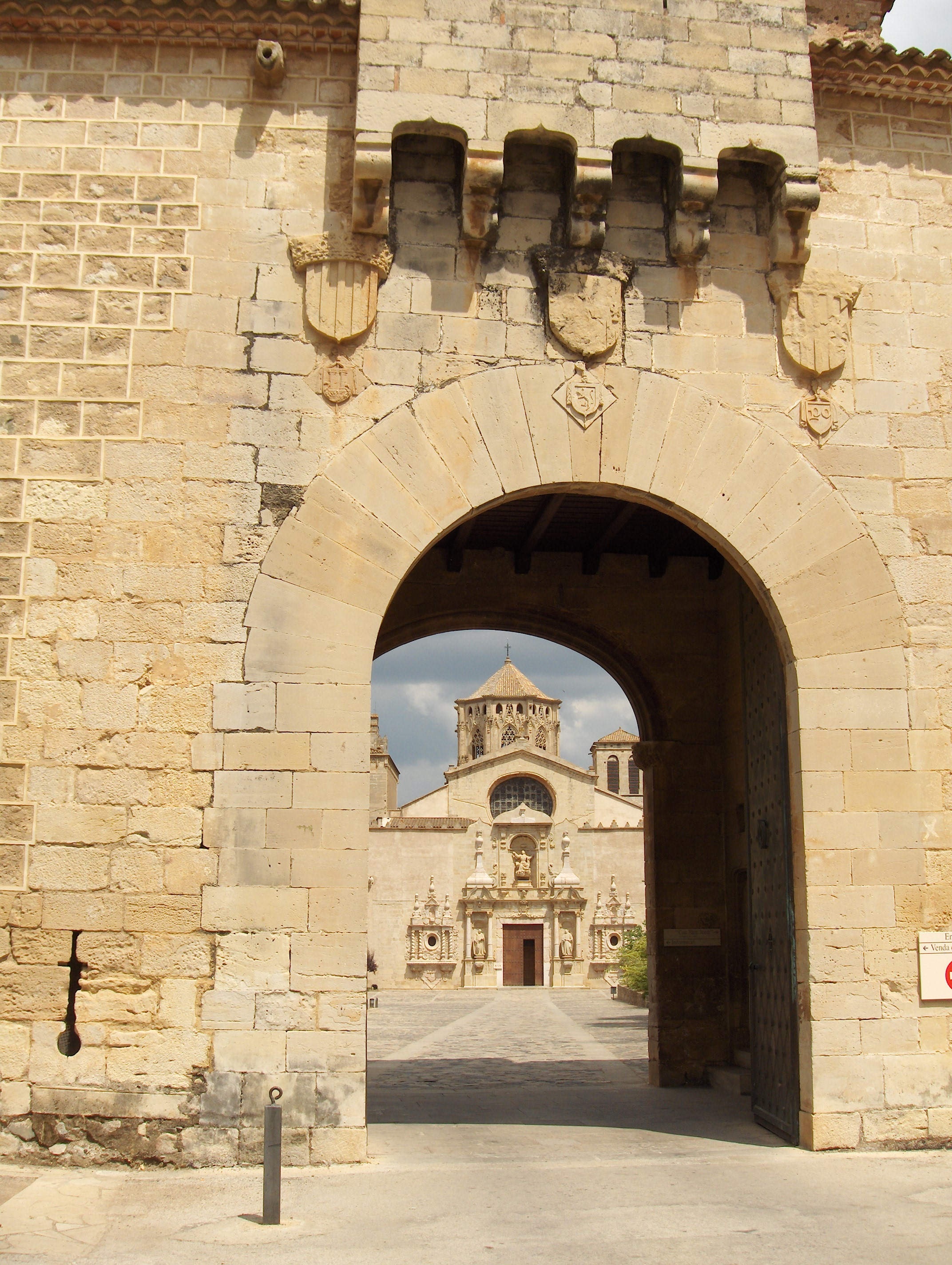 Poblet monastry in Catalunya, Spain